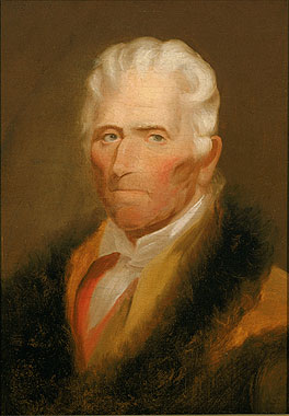 Portrait of Daniel Boone.